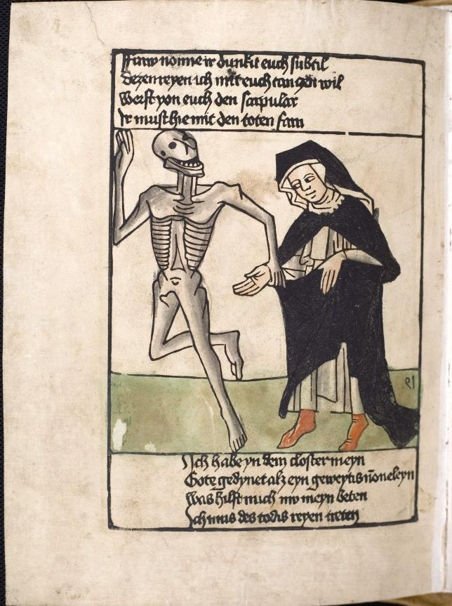 Totentanz (Danse Macabre) in blockbook format: oldest surviving book illustrations of the genre.